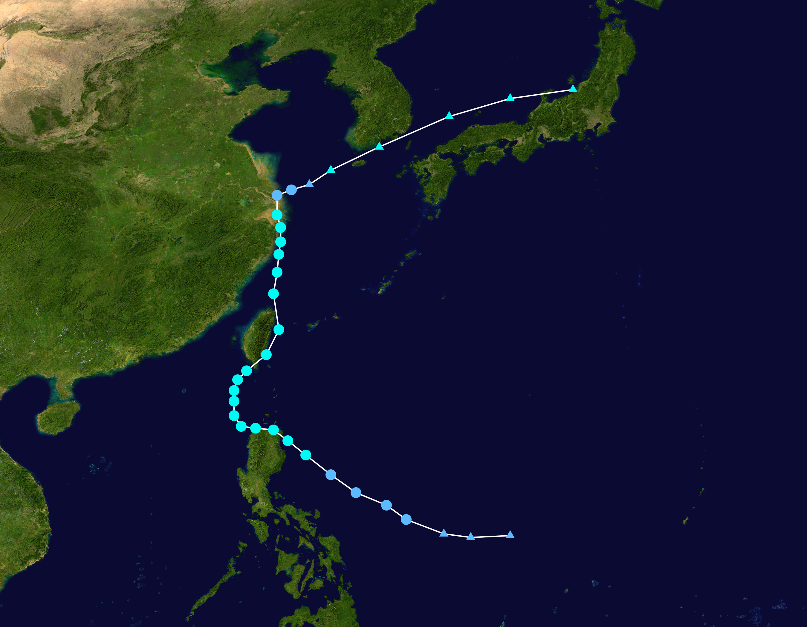 Track map of Tropical Storm Fung-wong of the 2014 Pacific typhoon season. The points show the location of the storm at 6-hour intervals. The colour represents the storm's maximum sustained wind speeds as classified in the Saffir–Simpson scale (see below), and the shape of the data points represent the nature of the storm, according to the legend below. Saffir–Simpson scale Tropical depression≤38 mph≤62 km/h Category 3111–129 mph178–208 km/h Tropical storm39–73 mph63–118 km/h Category 4130–156 mph209–251 km/h Category 174–95 mph119–153 km/h Category 5≥157 mph≥252 km/h Category 296–110 mph154–177 km/h Unknown Storm type Tropical cyclone Subtropical cyclone Extratropical cyclone / Remnant low / Tropical disturbance / Monsoon depression